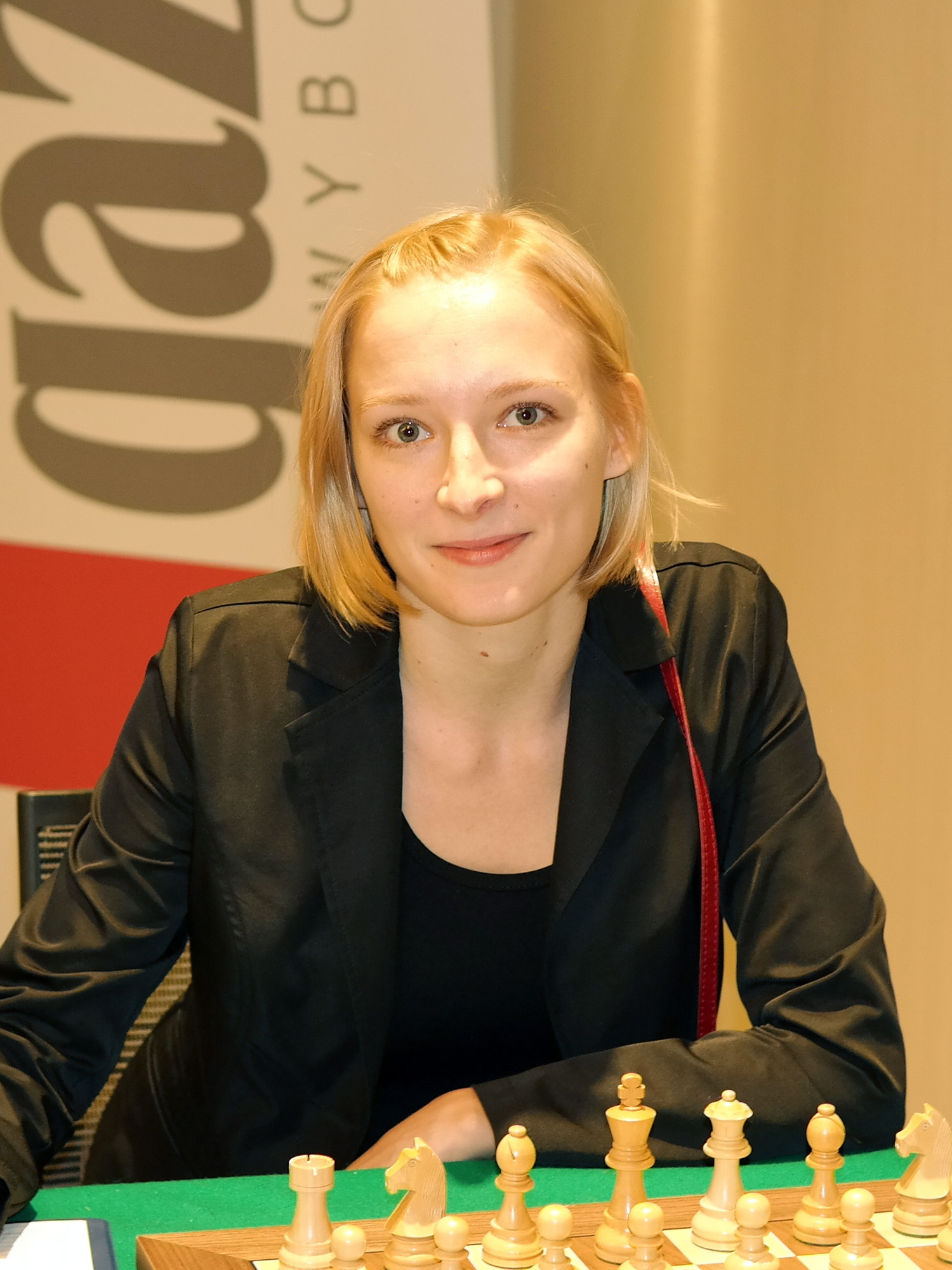 WGM Joanna Worek, Polish Chess Championship, Warsaw 2014